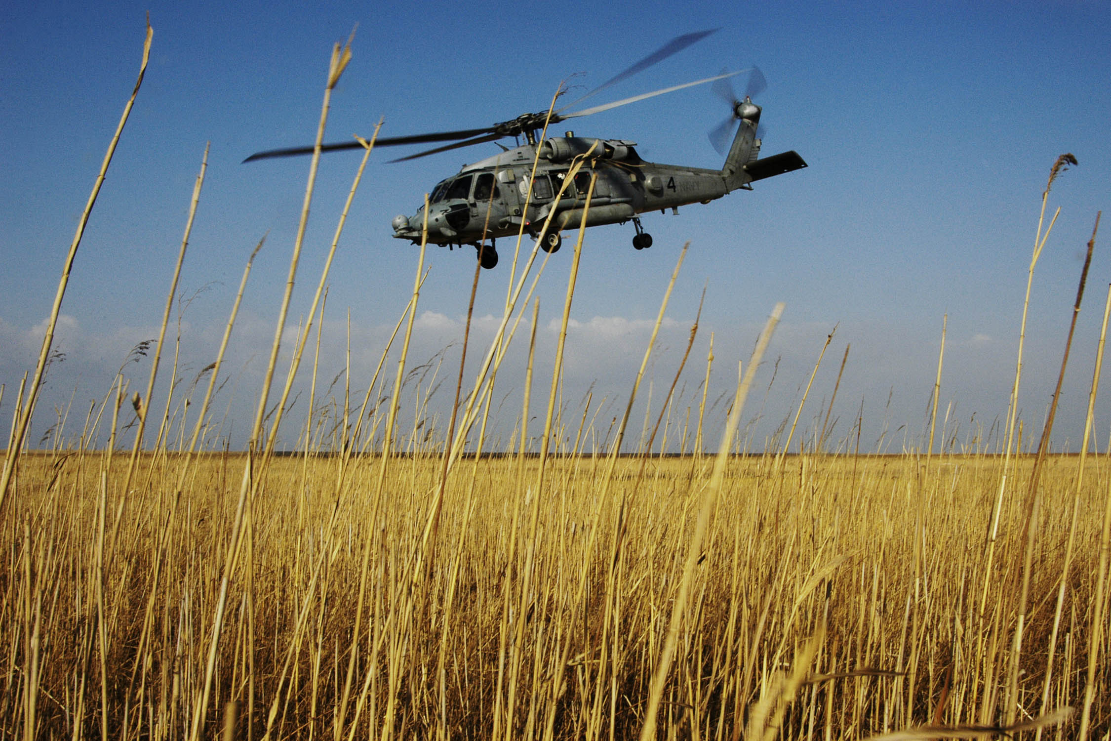 Osan, Republic of South Korea (March 28, 2006) – An SH-60F Helicopter assigned to Helicopter Anti-Submarine Squadron Two (HS-2) "Golden Falcons," makes an approach to an unprepared landing zone in the Republic of Korea during exercises conducted in conjunction with Operation Foal Eagle. The Nimitz-class aircraft carrier USS Abraham Lincoln (CVN-72) and Carrier Airwing Two (CVW-2) are currently steaming in the Republic of Korea Operational Area in support of Operation Foal Eagle, a joint land and maritime training operation utilizing forces from both the United States and the Republic of Korea. U.S. Navy photo by Photographer’s Mate 3rd Class M. Jeremie Yoder (RELEASED)